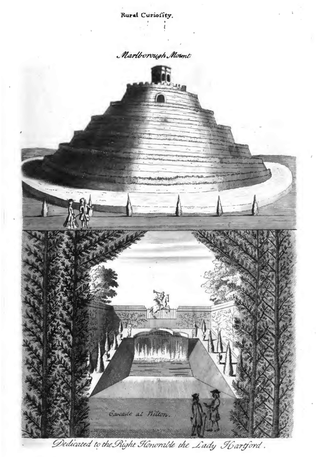 Plate in Itinerarium Curiosum written by William Stukeley illustrating Marlborough Mound as part of the garden of the Seymour family's country estate.